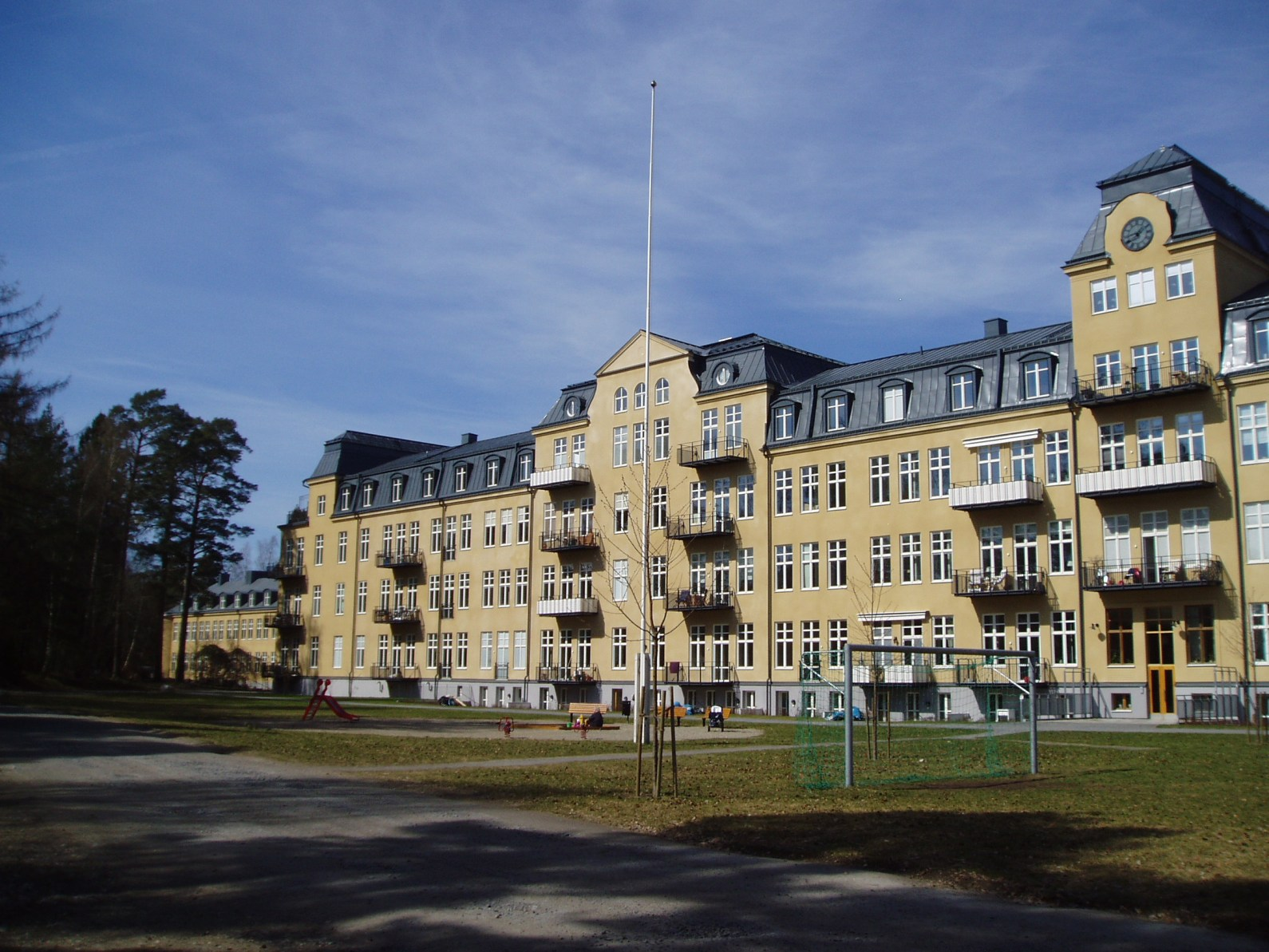 Söderby sjukhus, former hospital, Salem municipality, Sweden